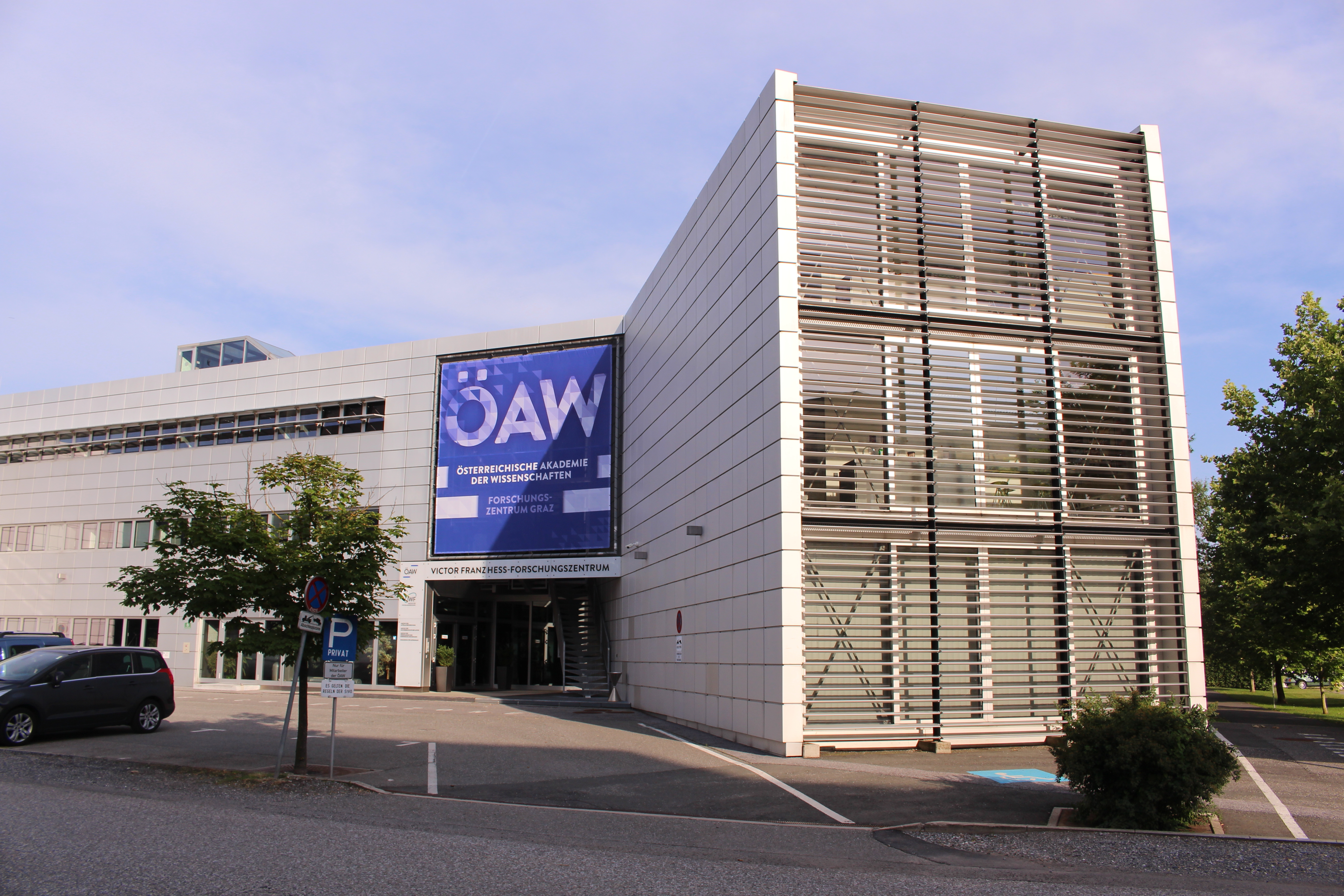 Space Research Institute in Graz, Austria